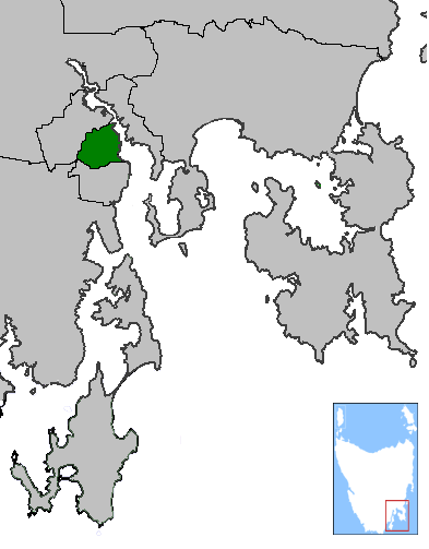 For more specific boundaries please see the map on the Tasmanian Electoral Commission website